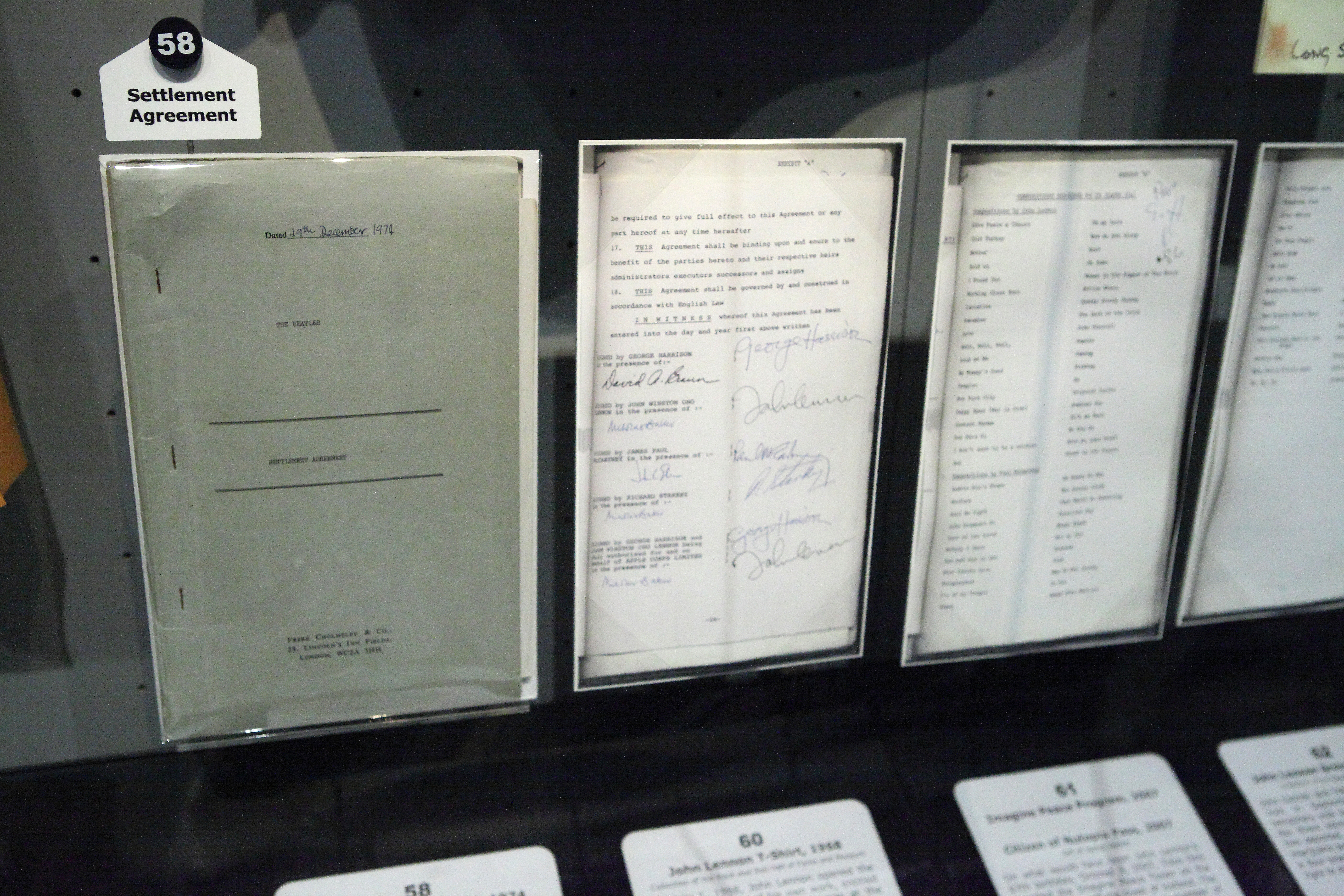 Separation Agreement of The Beatles at the Rock and Roll Hall of Fame in Cleveland, Ohio. Flickr Tags: ohio cleveland thebeatles rockandrollhalloffame. Flickr Tags: Rock and Roll Hall of Fame Cleveland Ohio. from Flickr album "Rock and Roll Hall of Fame" by Sam Howzit